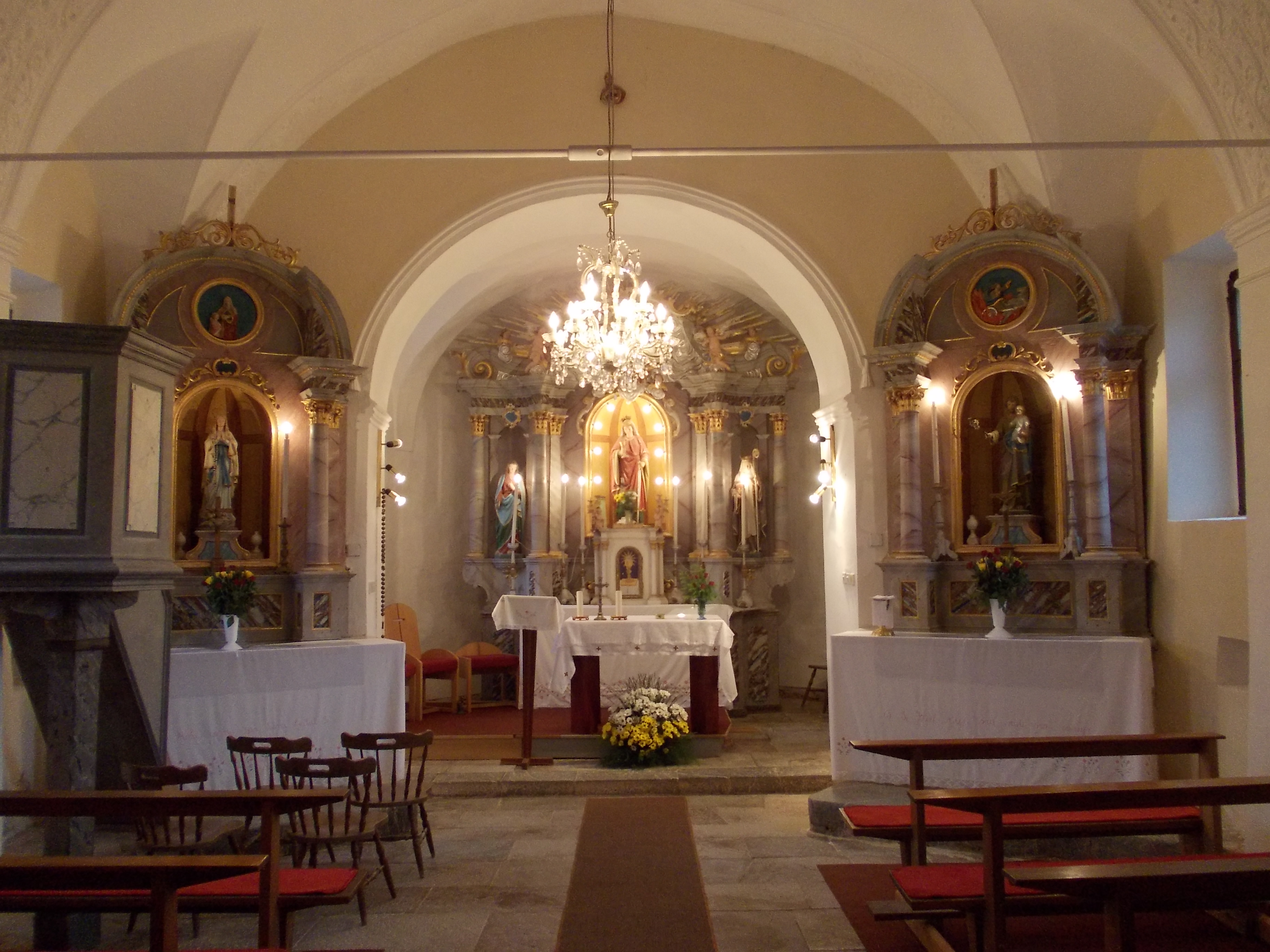 St. Barbara's Church (Drušče)